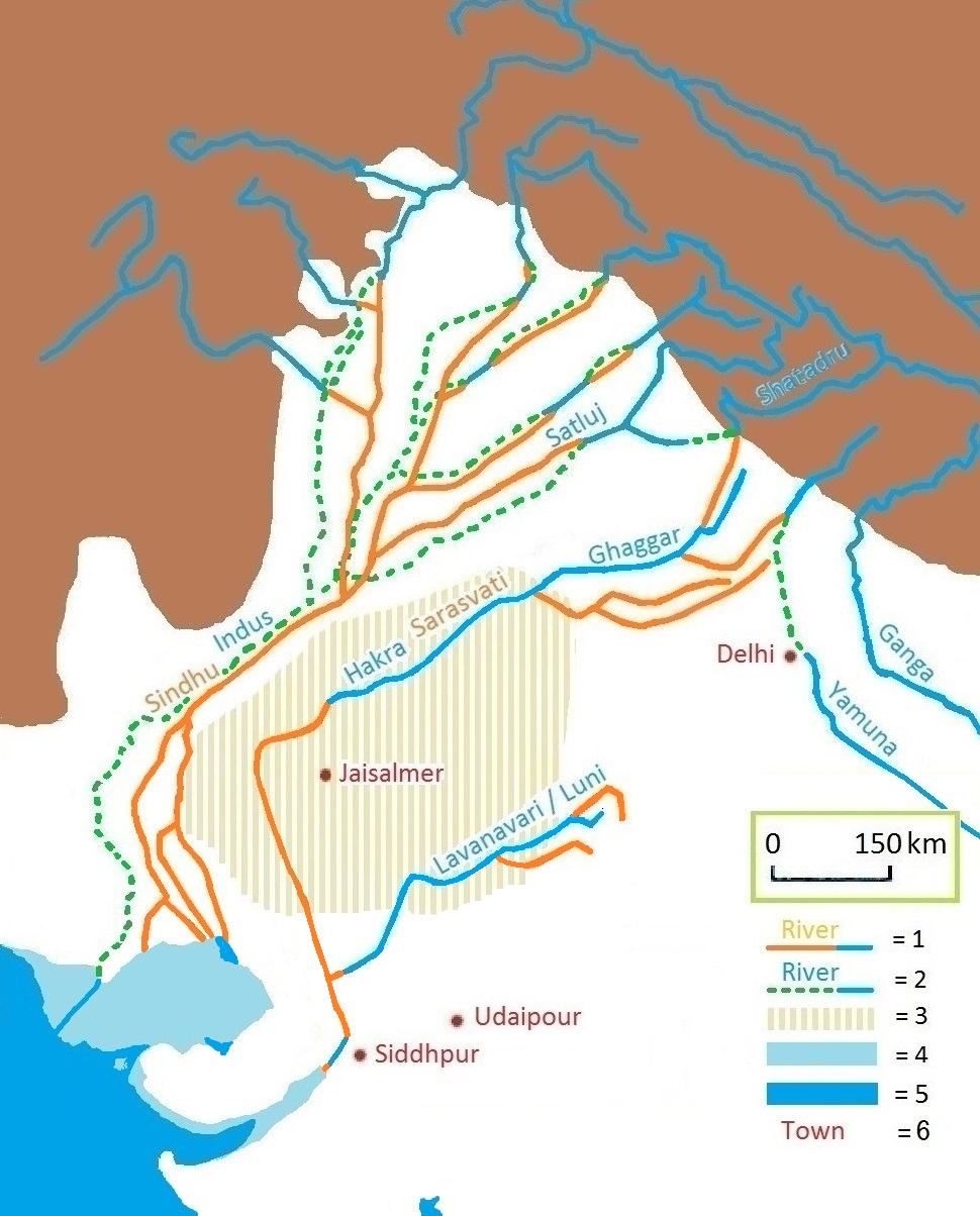 Map of the ancient Sarasvati river 1=ancient river 2=today's river 3=today's Thar desert 4=ancient shore 5=today's shore 6=today's town